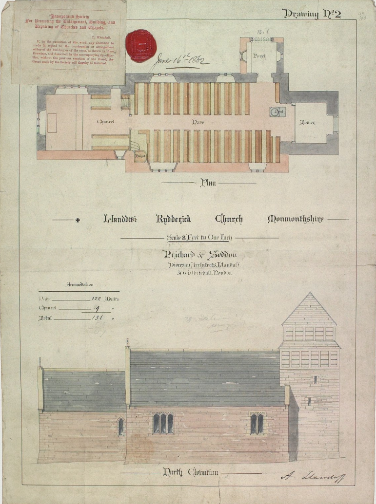 Architectural plan for the restoration of the Church of St David, Llanddewi Rhydderch, Wales